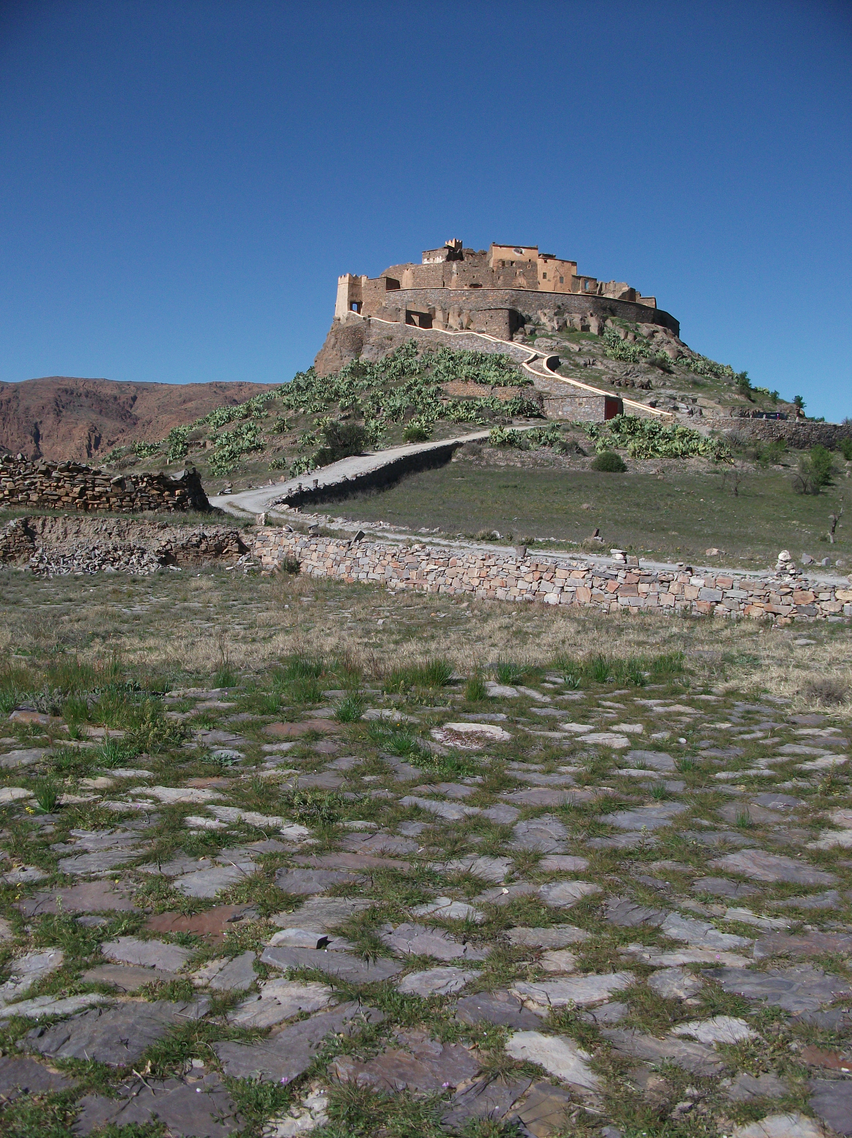 Tizourgane